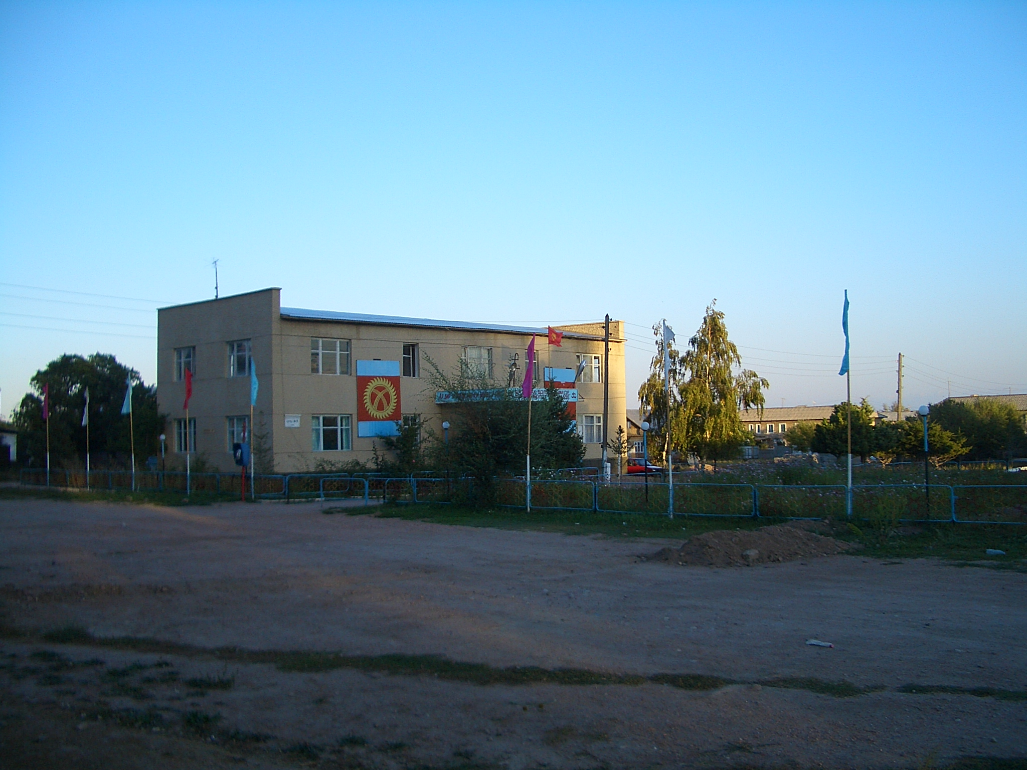 In the center of Tamchy village. The building houses the police station and maybe some other government offices.